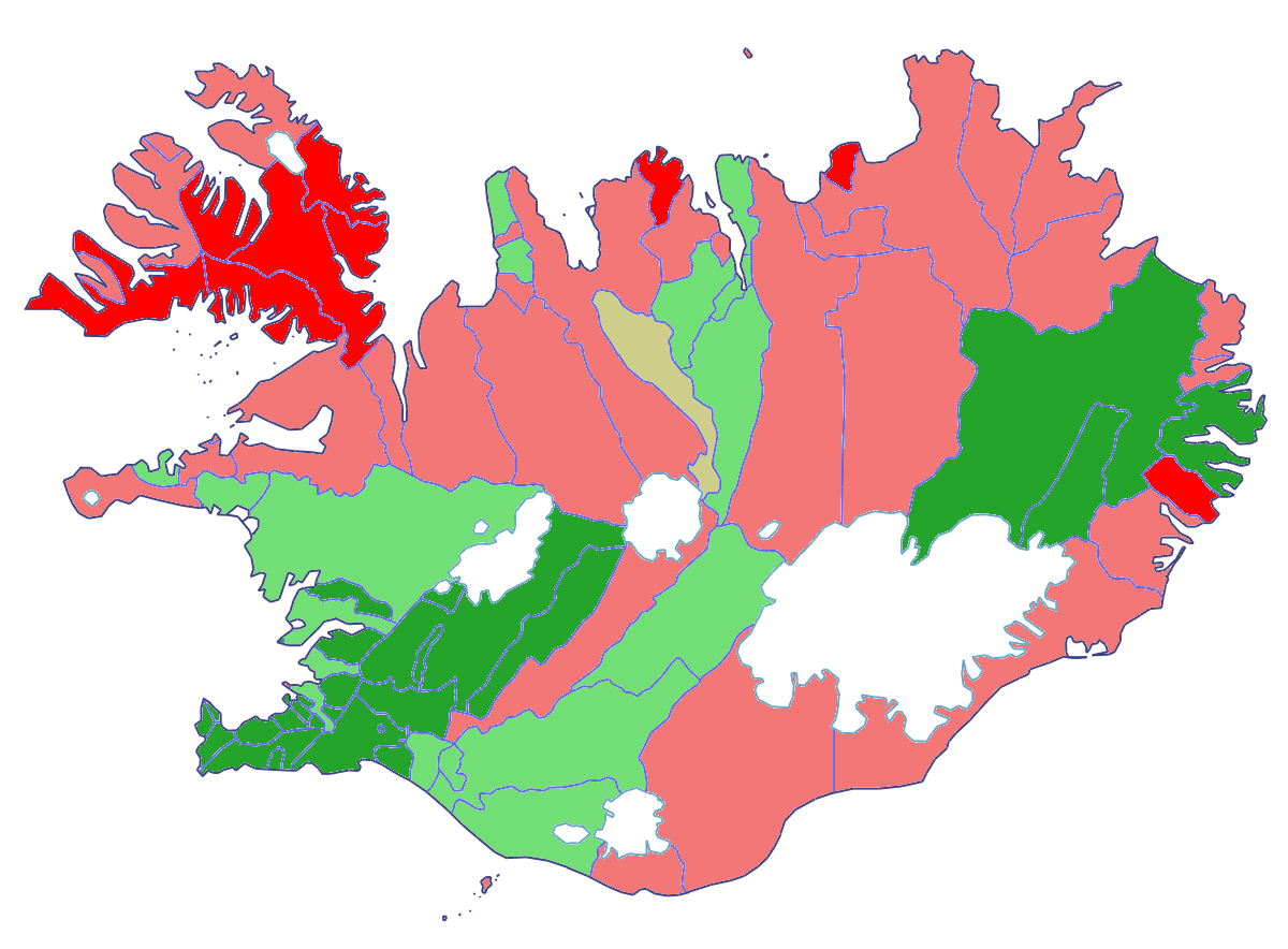 This map shows the changes in population of the municipalities of Iceland in the ten year period 1996-2006. The dark red municipalities have lost over 20% of their population in this period while the lighter red have experienced less severe depopulation. The yellow indicates the one municipality which had the exactly same number of inhabitants in 1996 and 2006. The green municipalities experienced a growth in population, the growth was lower than the total growth of the nation in the period (13.92%) in the light green ones and higher than the national rate in the dark green ones.